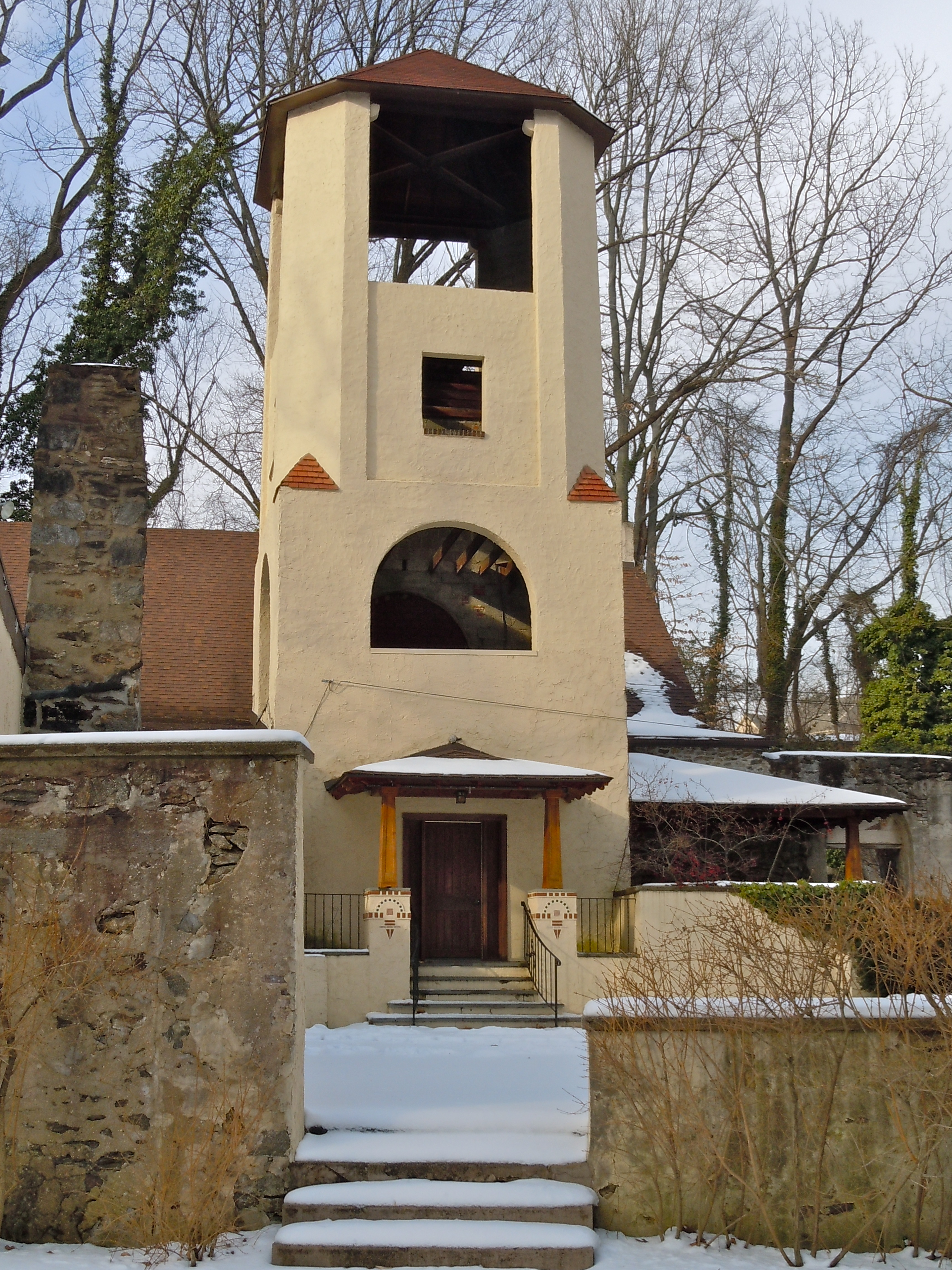 Old Mill in Rose Valley, Pennsylvania. Home of "Rose Valley Folk" and Rose Valley Borough administration. In Rose Valley Historic District.